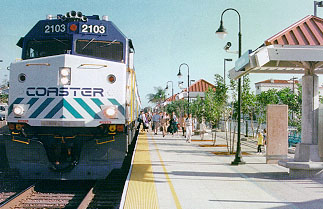 A Coaster Coaster train at Encinitas, California